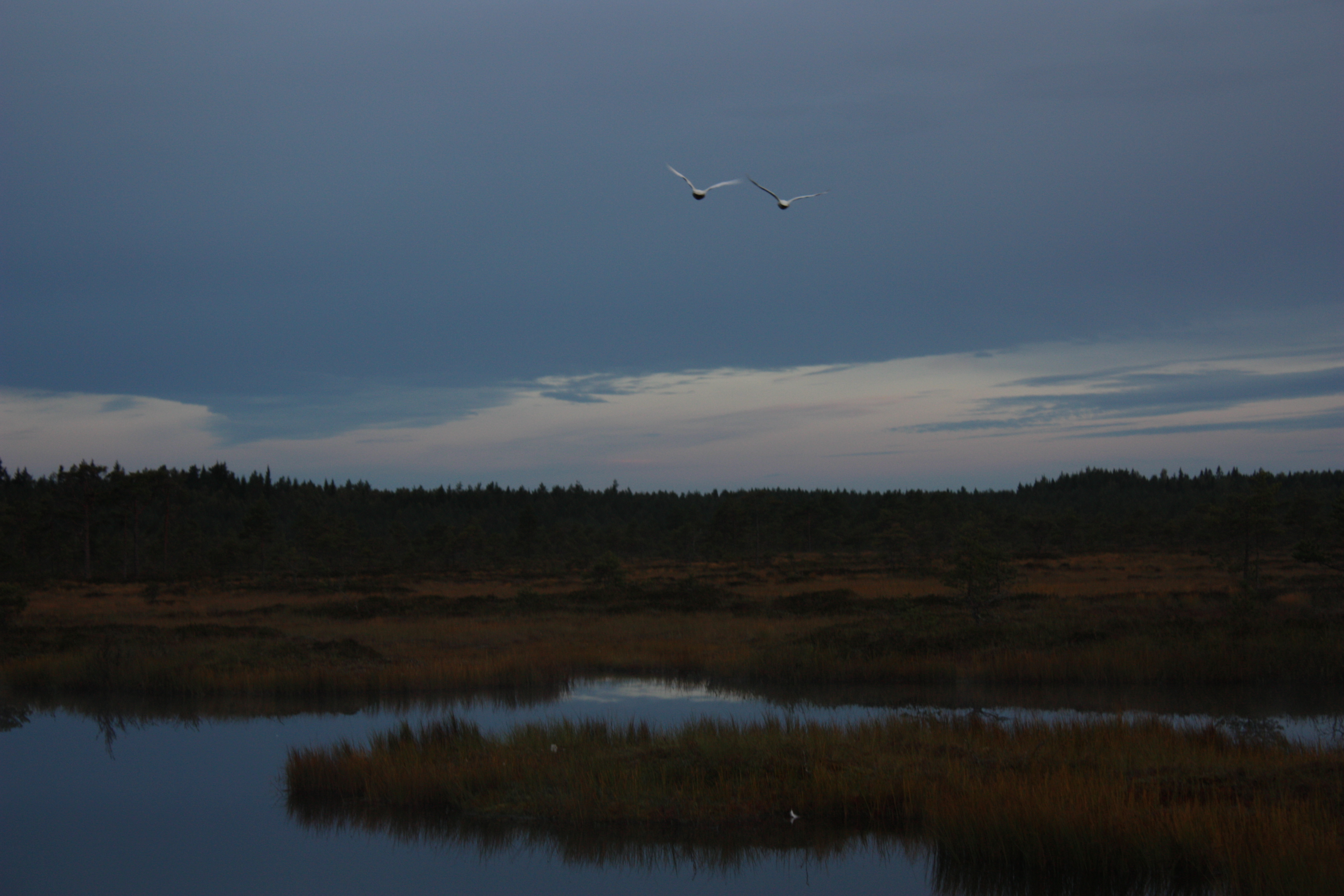 Two whooper swans (Cygnus cygnus) flying over the Vajosuo bog in Kurjenrahka national park, Finland. The sun has just risen above the horizon and the swans have been startled to flight from a nearby pool of water (but not by the photographer). The pool in front has been a resting place for the birds as well, since there are multiple feathers and droppings to be seen on the small patch of land in the middle.